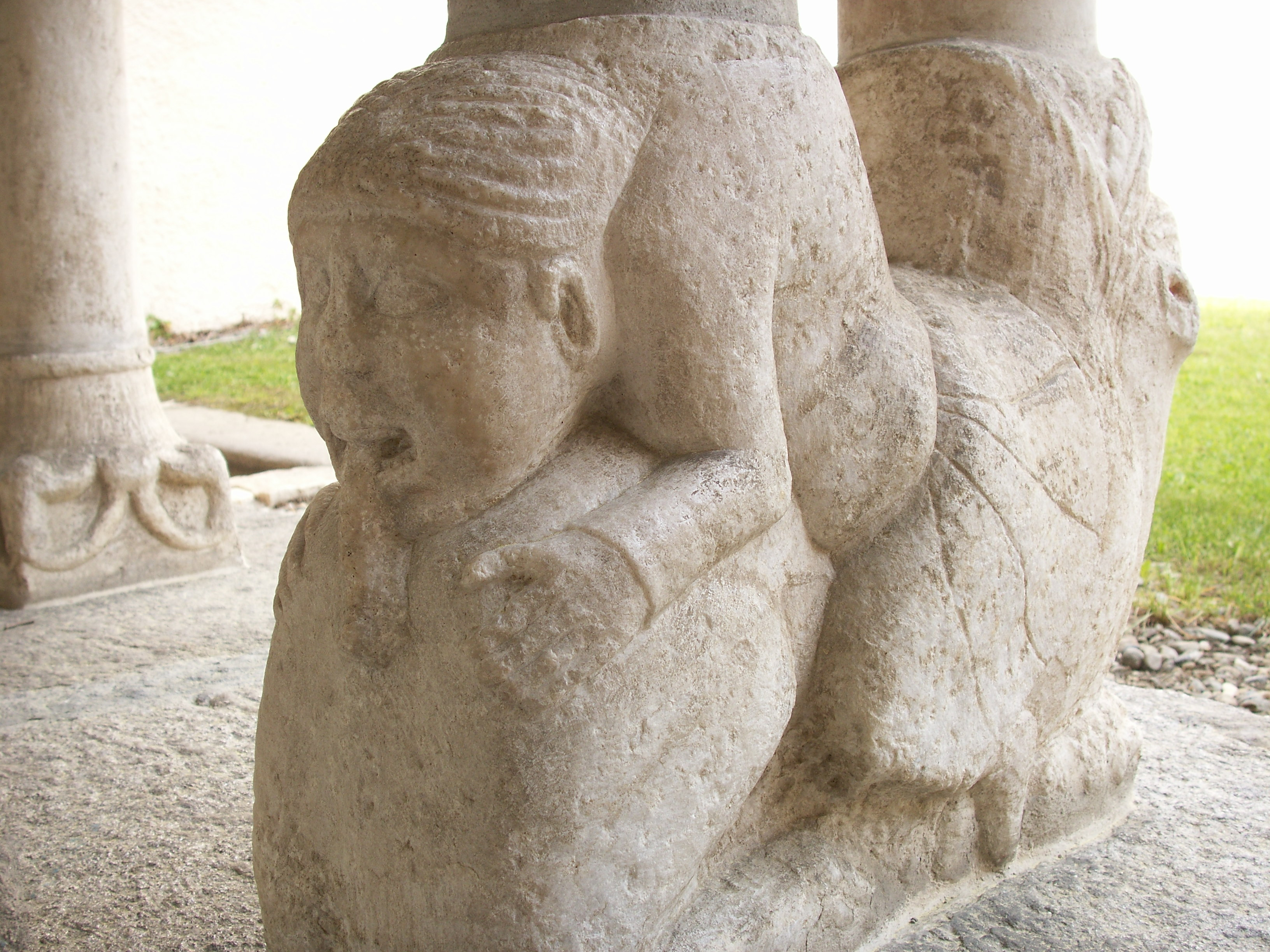 Stylobate with tongue protruding female and a lion in the romanesque cloister of Millstatt Abbey near Spittal an der Drau / Carinthia / Austria / EU.